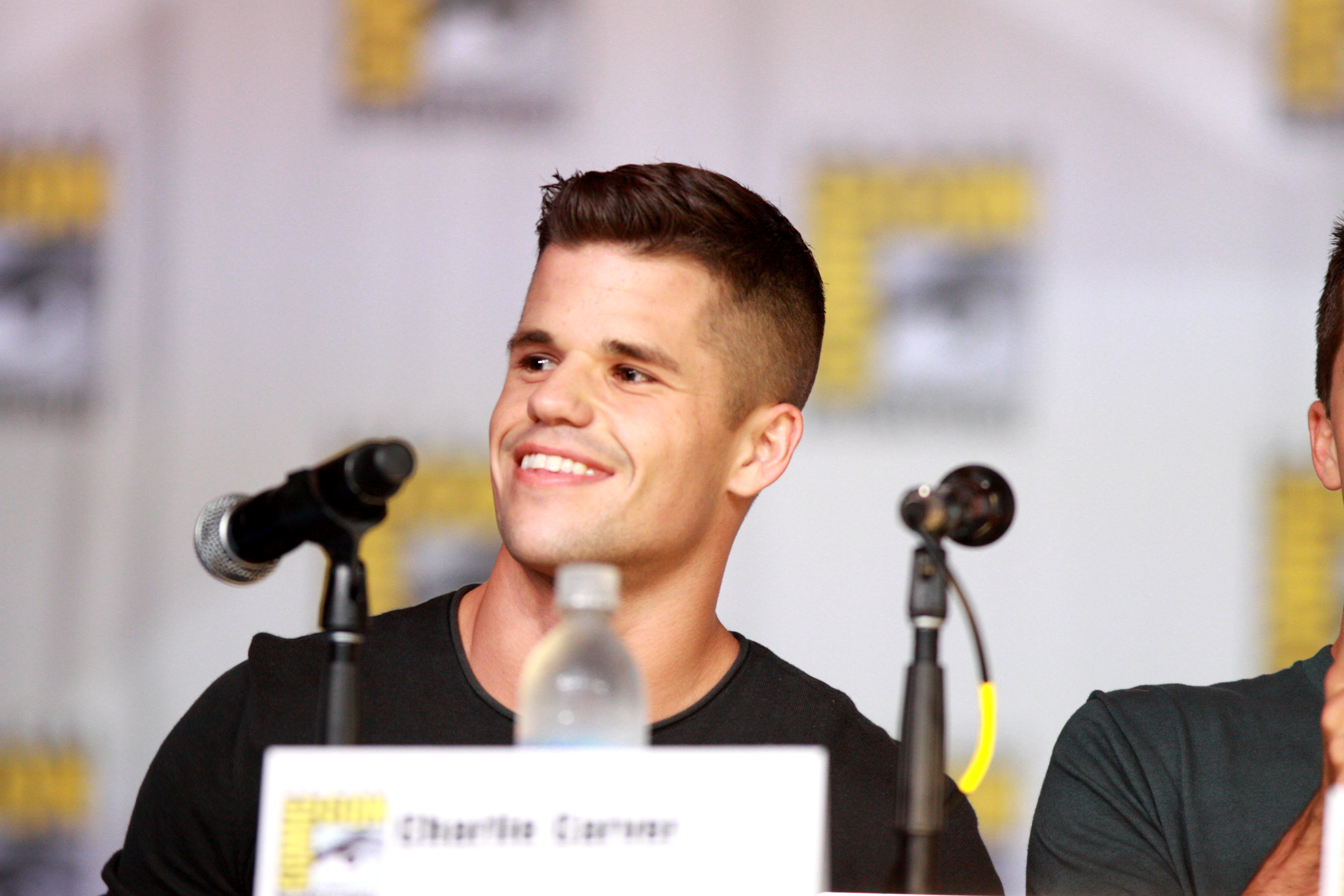 Carver at San Diego Comic Con International in 2013